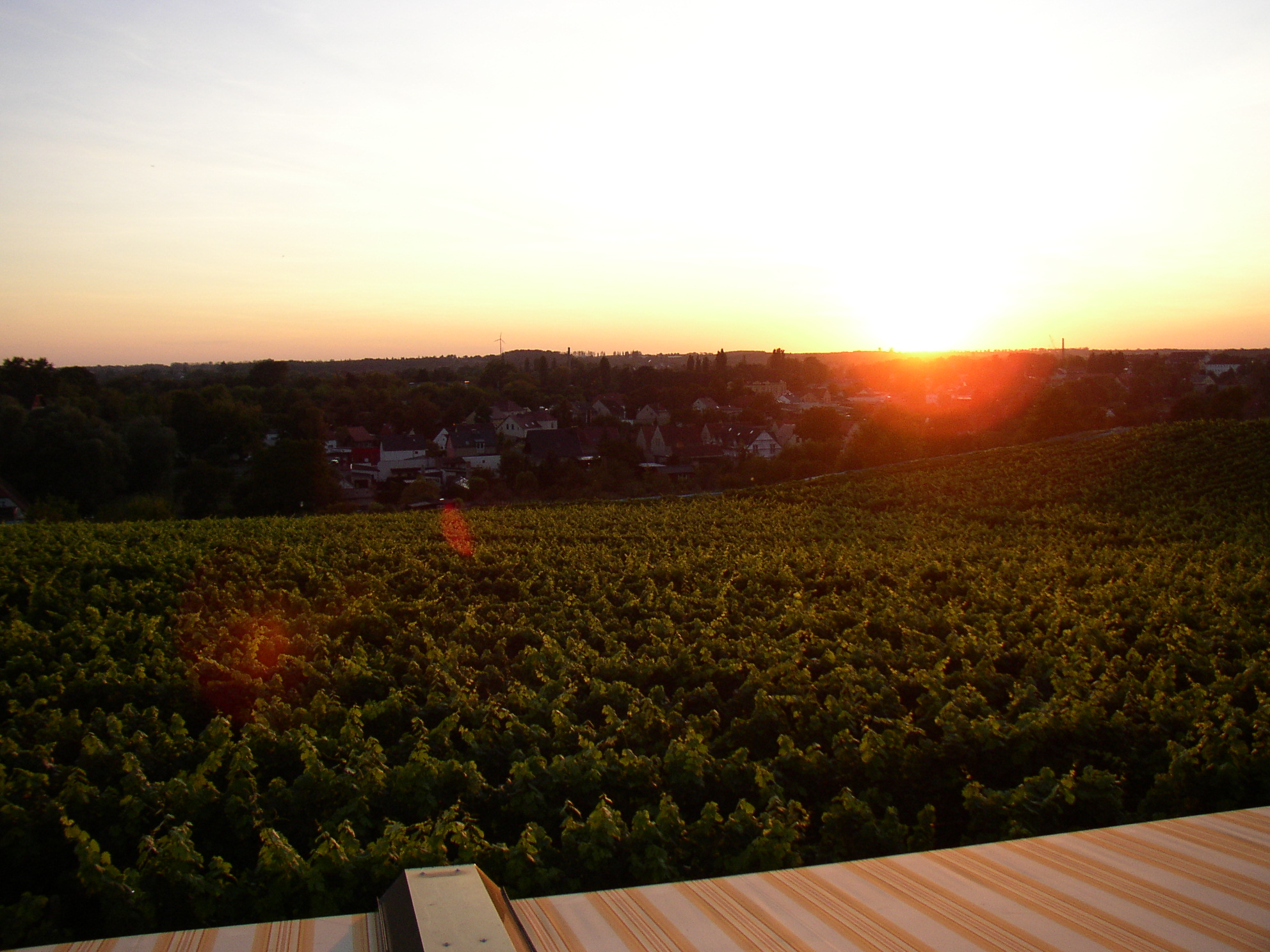 The vineyard Quail's Mountain of Werder lies geographically with Latitude of 52 degree and 22 minutes north far to the north of the usual wine-growing areas of Europe. In 1991 this vineyard was taken up as a Großlagenfreie Einzellage in the Weinanbaugebiet Saale-Unstrut (winegrowing area at the rivers Saale and Unstrut) and was recognised by the EU. It is with it the most northern registered position for quality-tested wine cultivation (QbA) in Europe and the World.